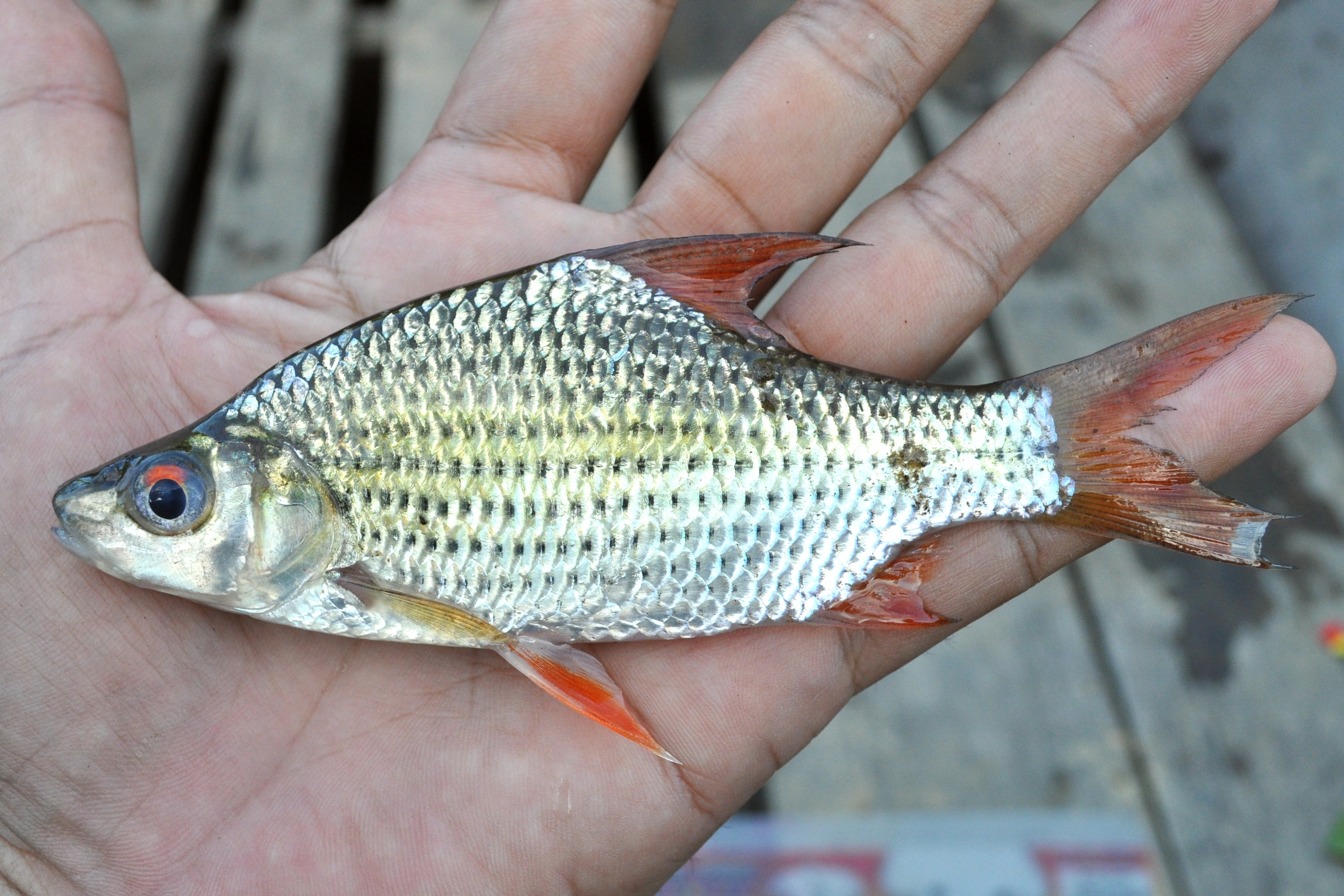 Anematichthys apogon, ca. 11cm SL (standard length). From West Kalimantan, Indonesia.